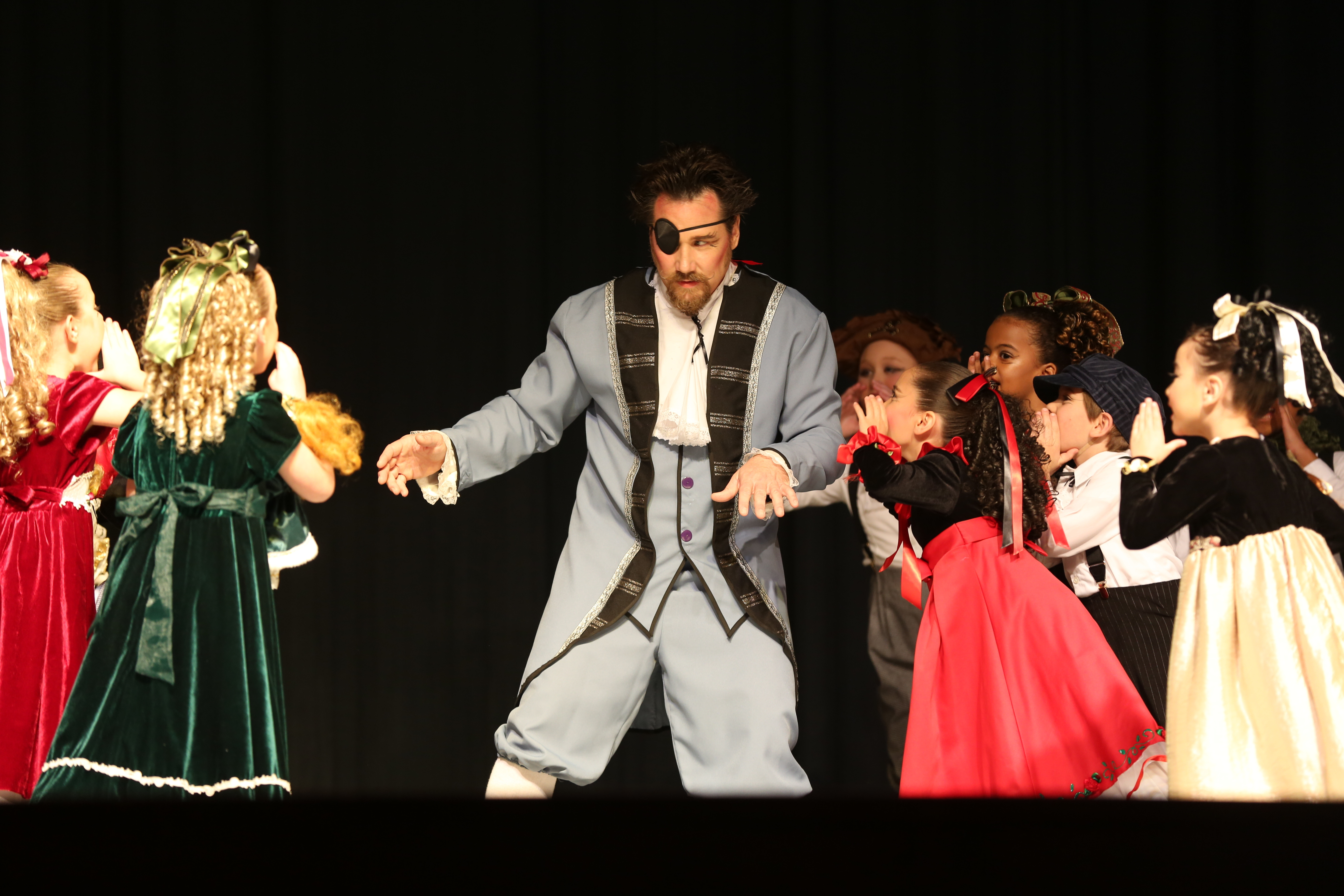 Members of the New Bern Ballet Company perform the Christmas tale of "The Nutcracker" during the 3rd annual showing at Marine Corps Air Station Cherry Point's Two Rivers Theater and Event Center Dec. 6. More than 1,200 members from the local community came to view the show. The performance is based off the original ballet performance choreographed by "the father of classical ballet," Marius Petipa.